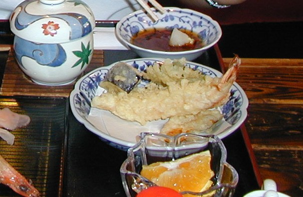 Tempura; picture taken at Kotohira (Japan)